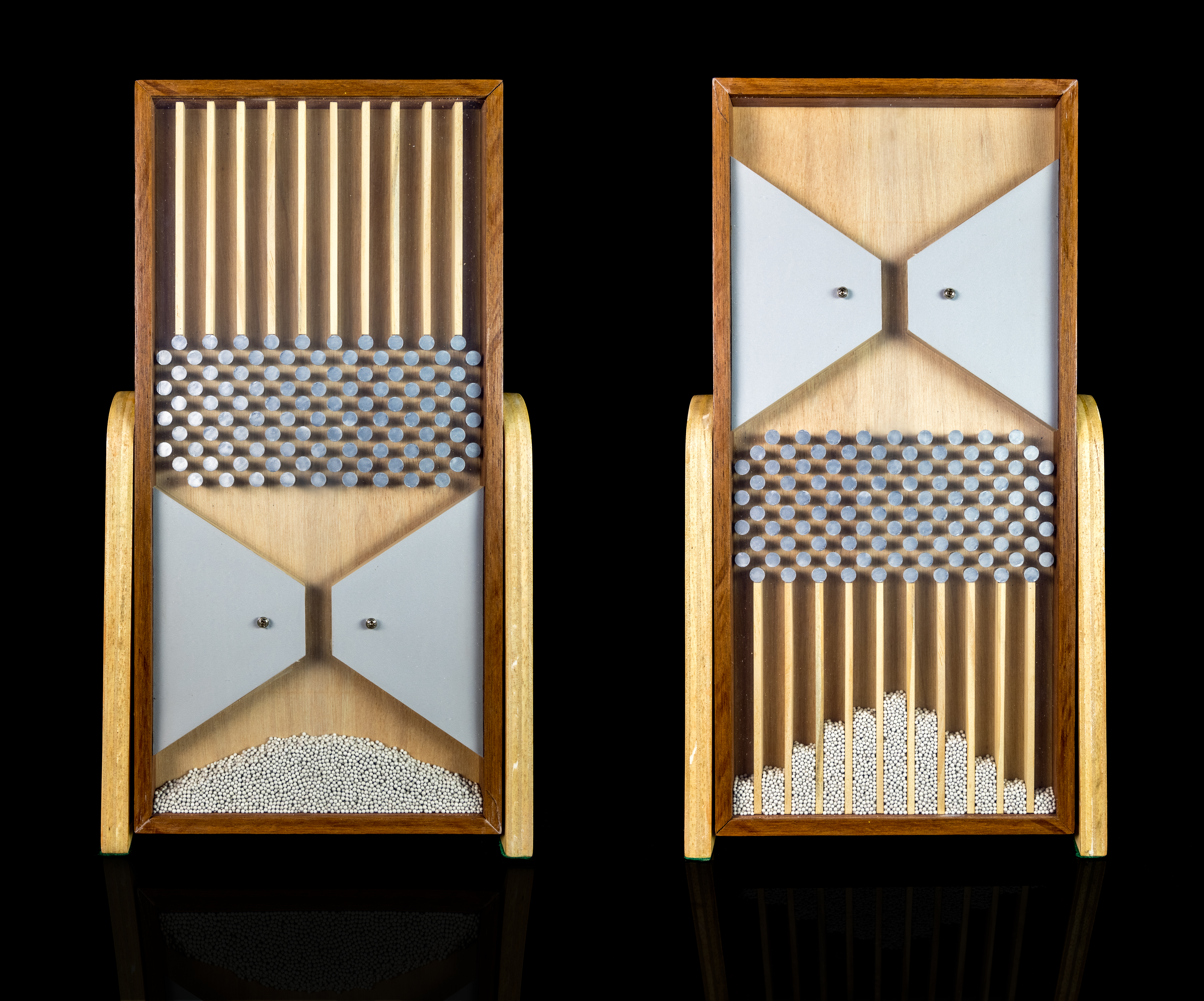 A Galton box showing a normal distribution.